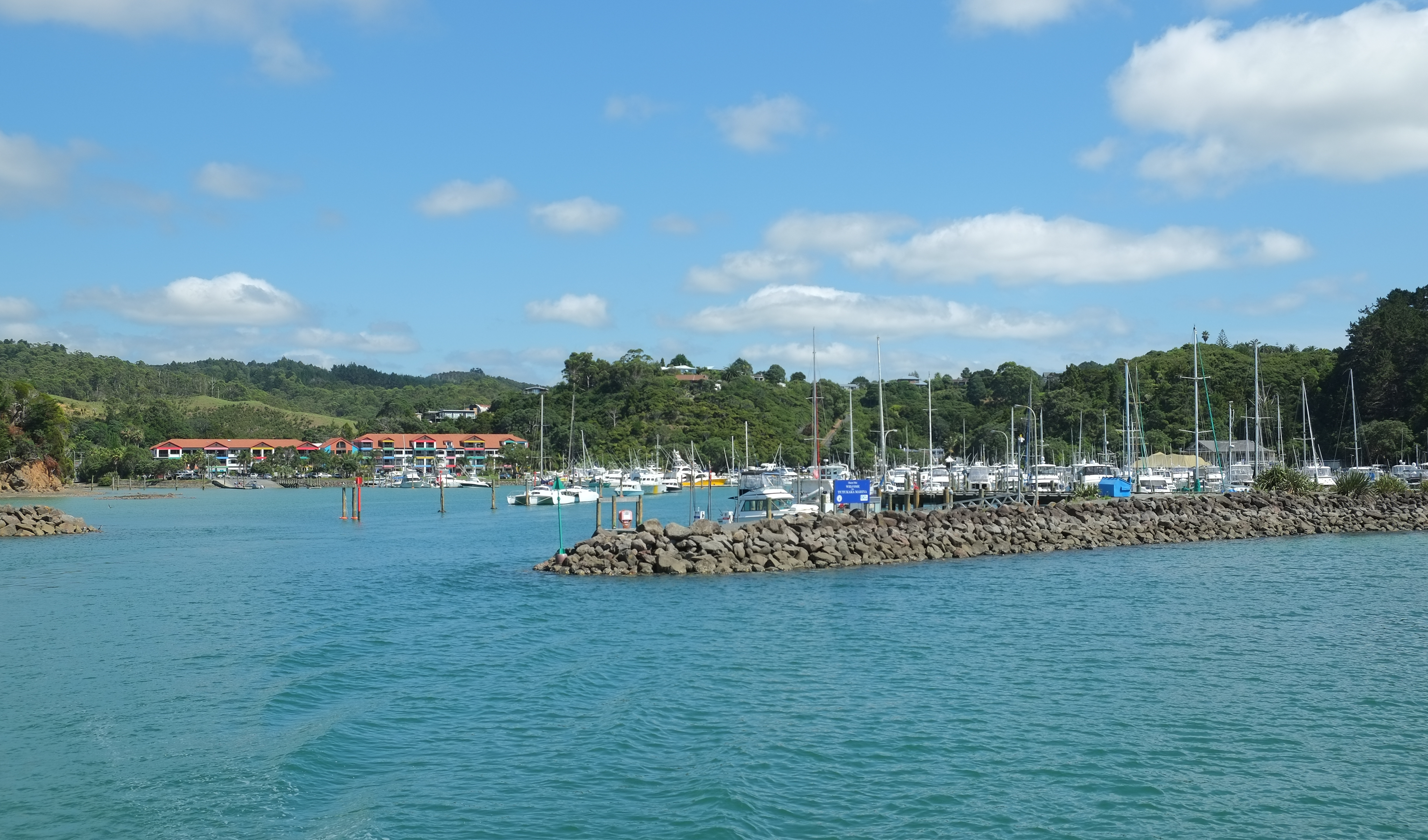 Tutukaka marina from the water